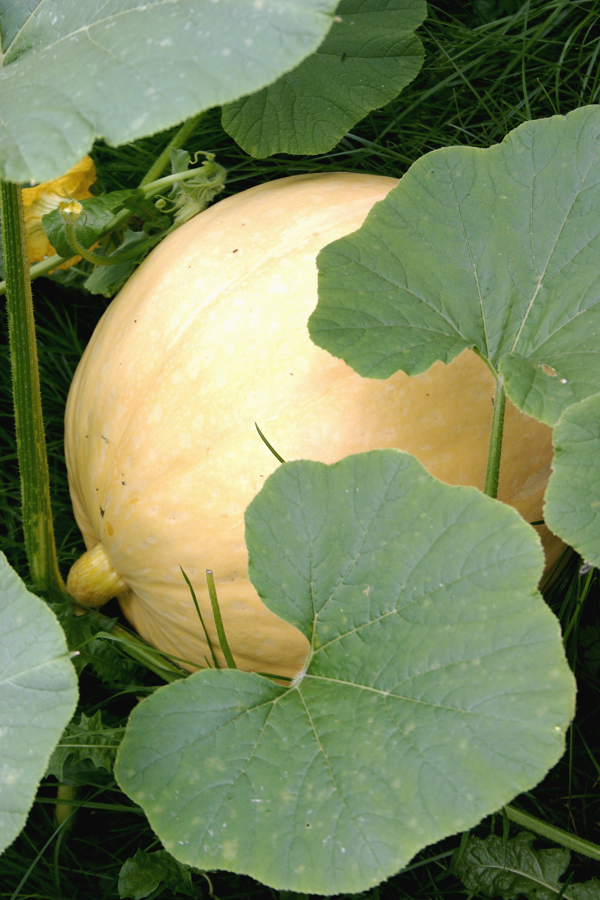 Pumpkin